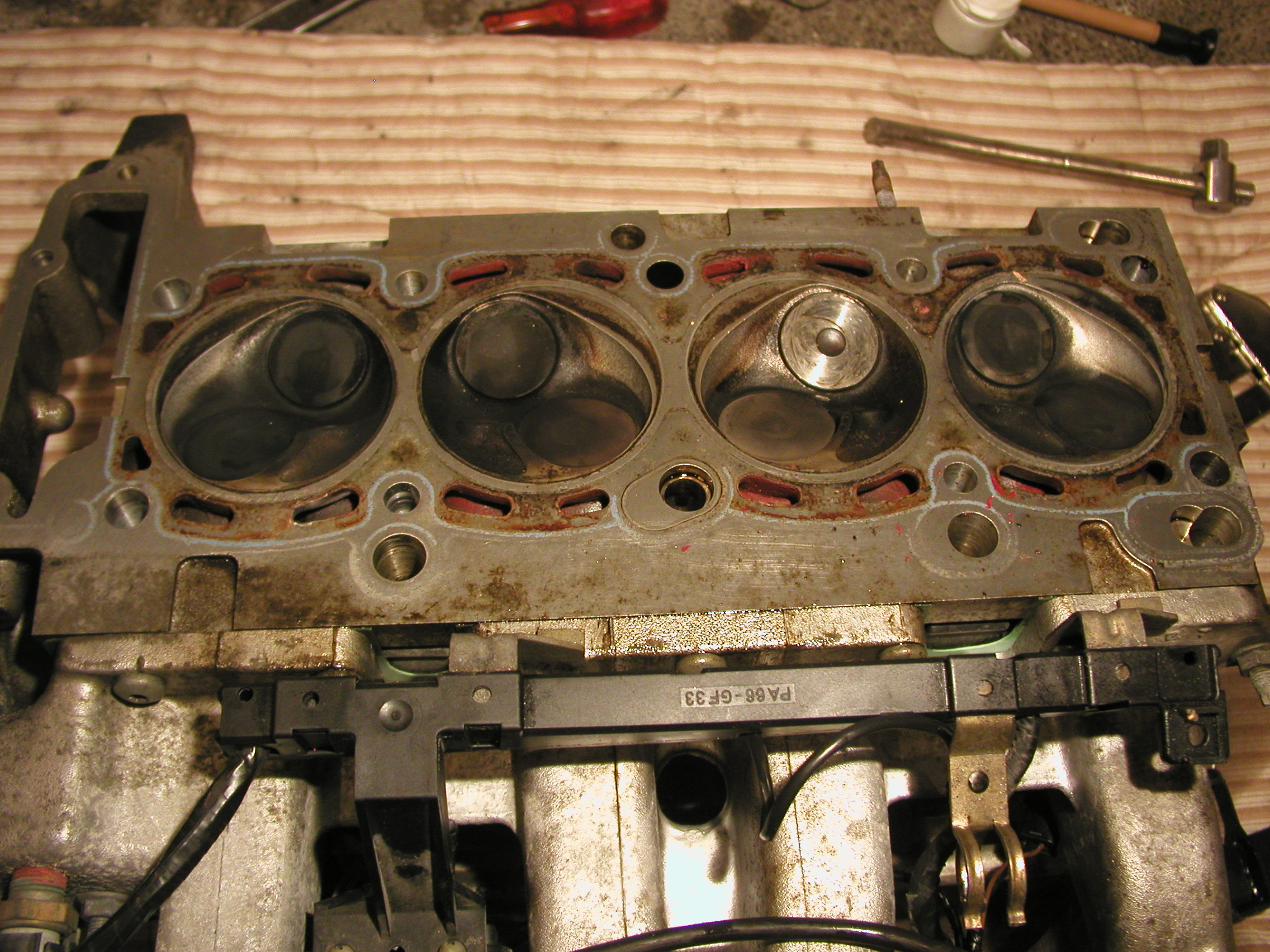 The cylinder head of the Ford I4 DOHC engine, seen from its bottom side. The intake manifold has been left on and is visible on the bottom side of the image, while the exhaust manifold has been removed to replace an exhaust valve, as seen by the much shinier valve in the second combustion chamber from the right.